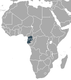 Black Colobus (Colobus satanas) range